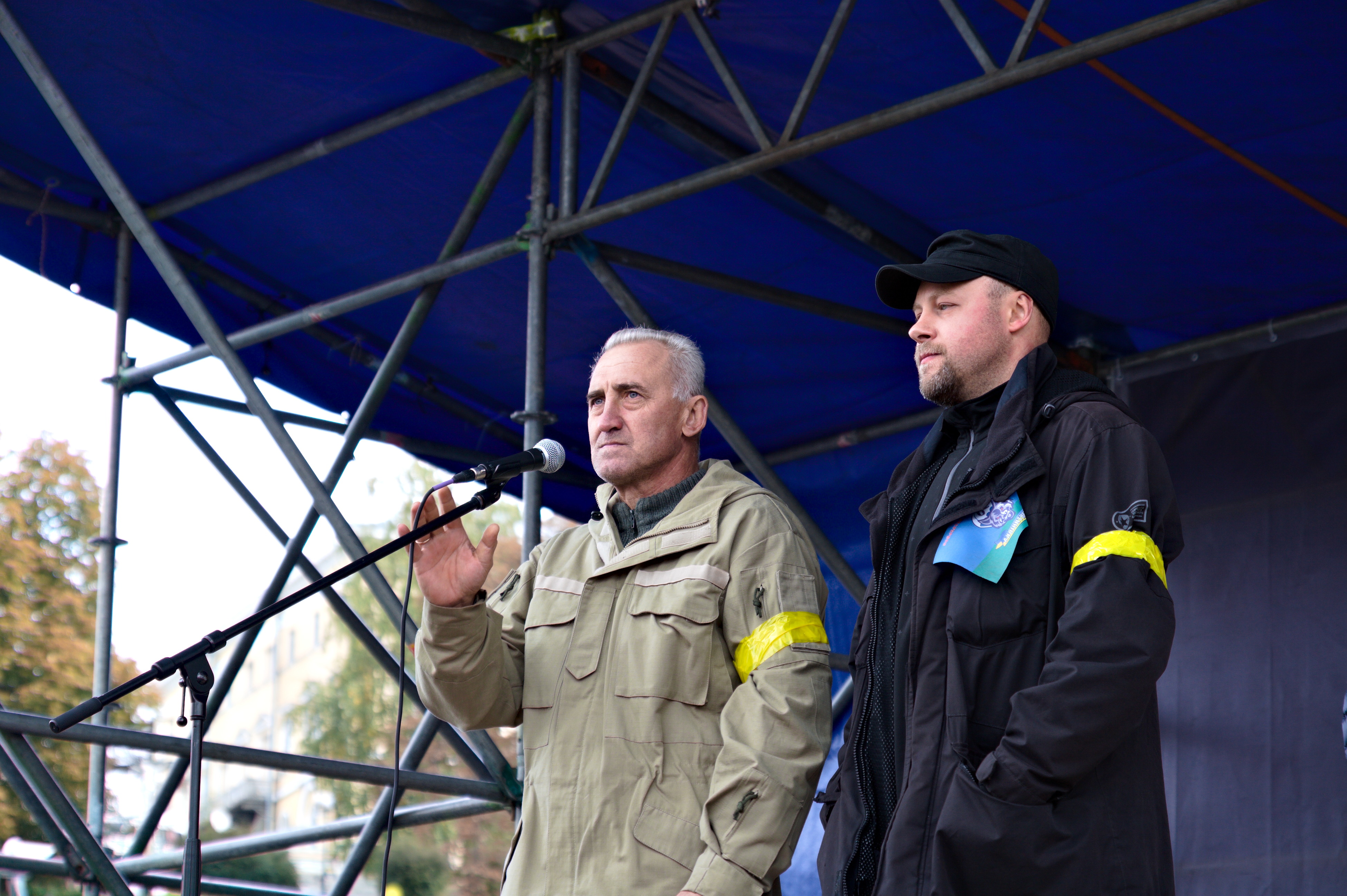 NO to capitulation! Protests in Kyiv. Oct 6, 2019.